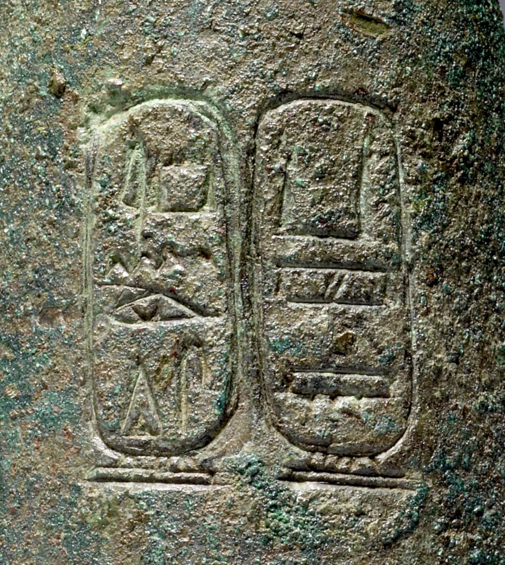 A situla is a vessel that held liquid offerings used in rituals for the gods. This one is inscribed with the names of King Kashta and his daughter Amenirdis. Kashta was the first Nubian king who ruled over Kush (Nubia) and parts of Egypt during the 25th dynasty. His daughter Amenirdis I was the "God's wife of Amen" at Thebes-the most important priestly office in Egypt at that time. This small situla might have been used by Amenidris I as a child during her education as a priestess.